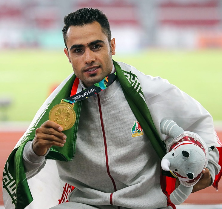 Hossein Keyhani after winning steeplechase at the 2018 Asian Games